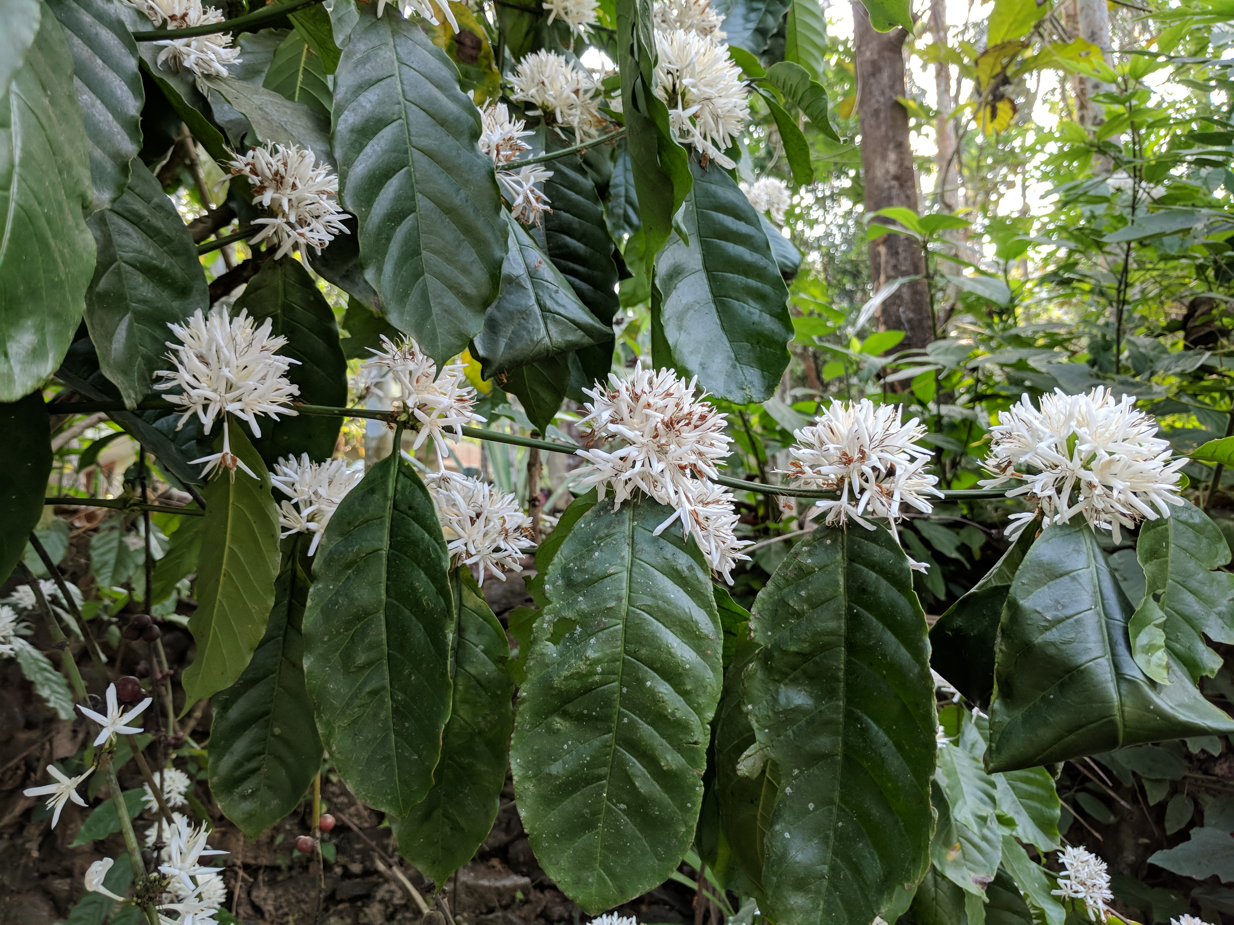 wild tobaco